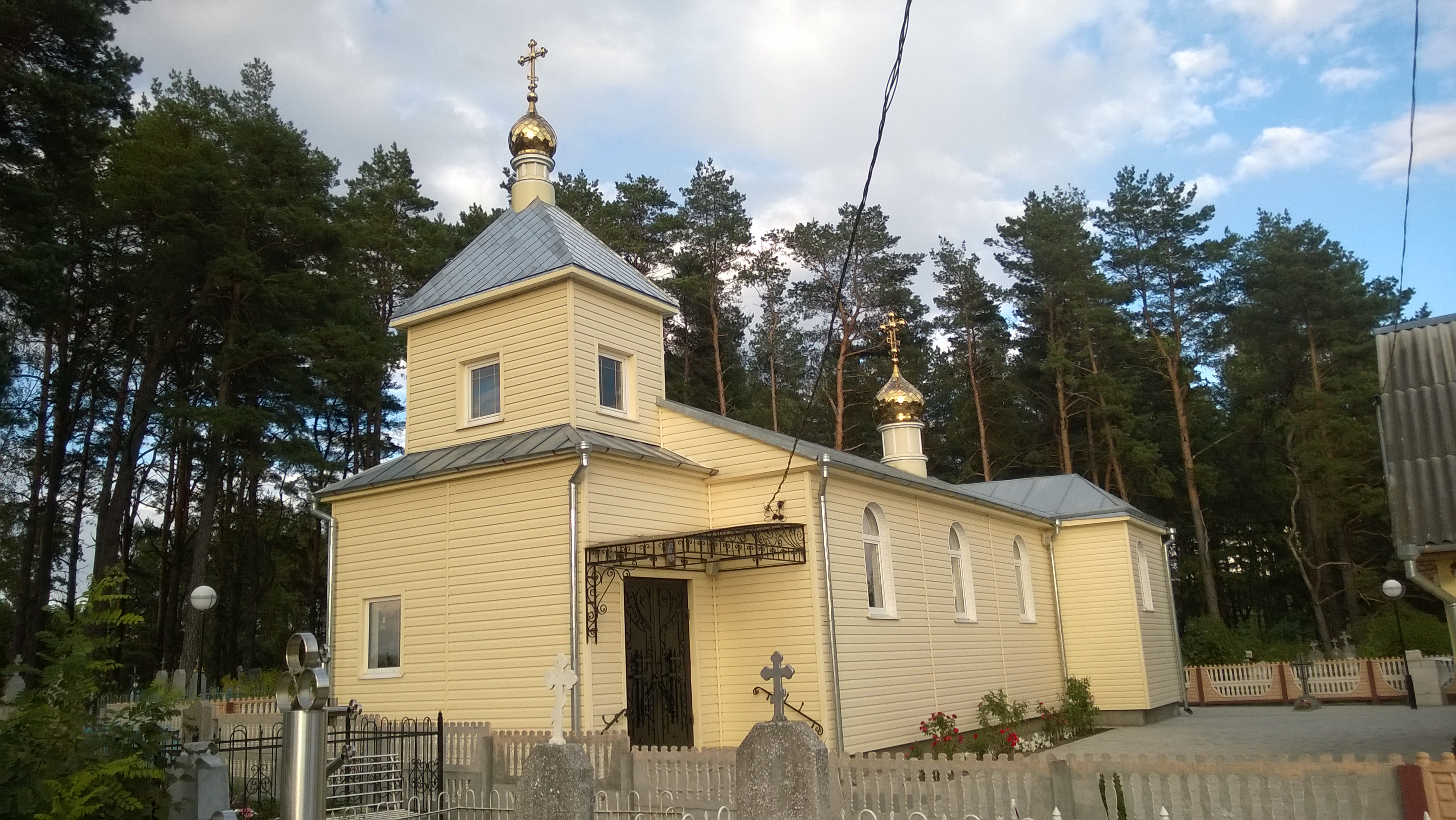 Masty District, Belarus